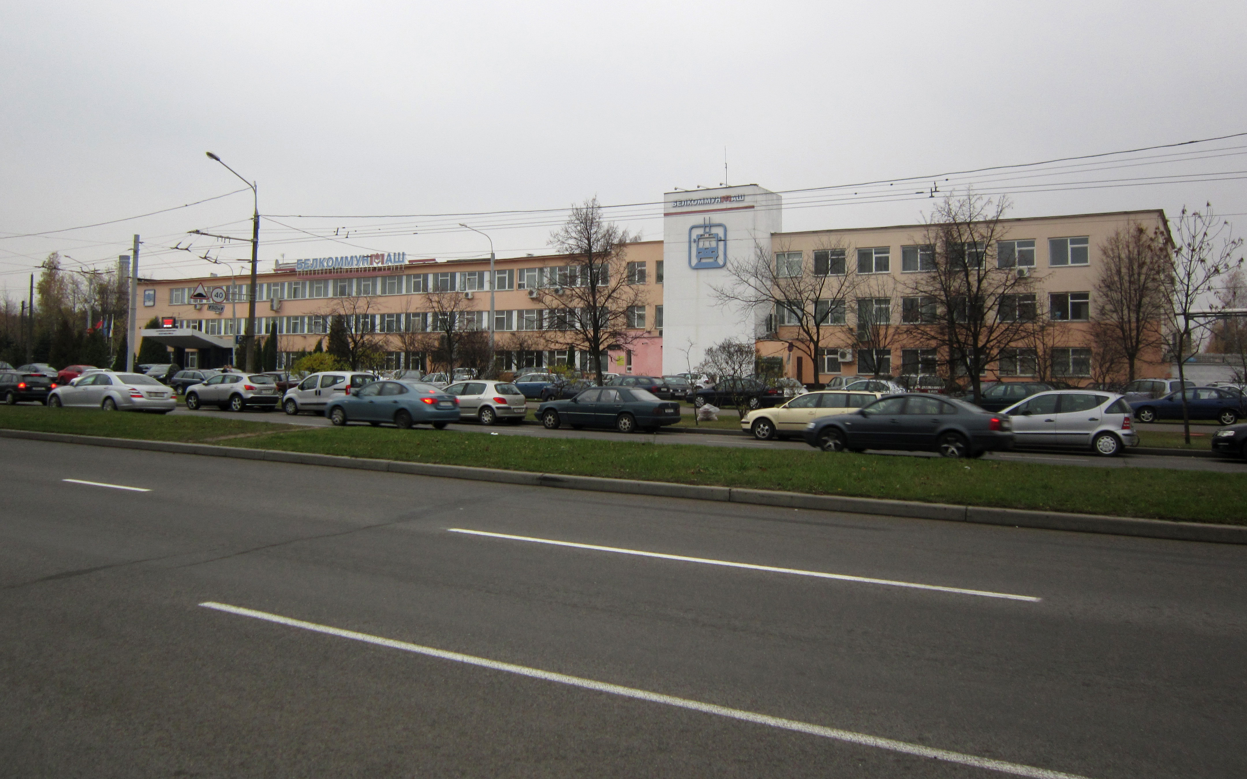 "Belkommunmash" plant in Minsk